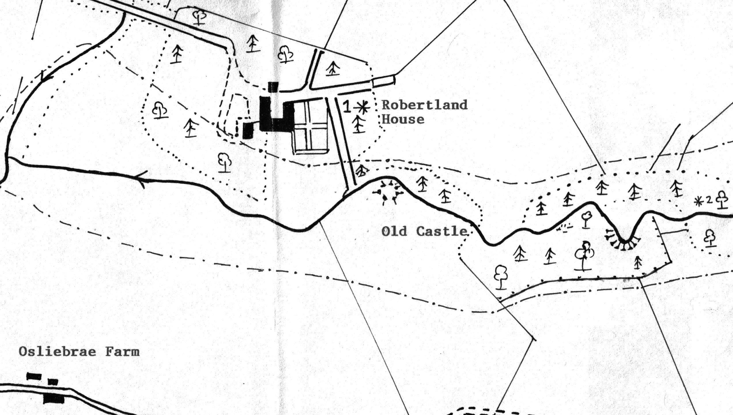 Robertland house and old castle site, Stewarton, East Ayrshire, Scotland.